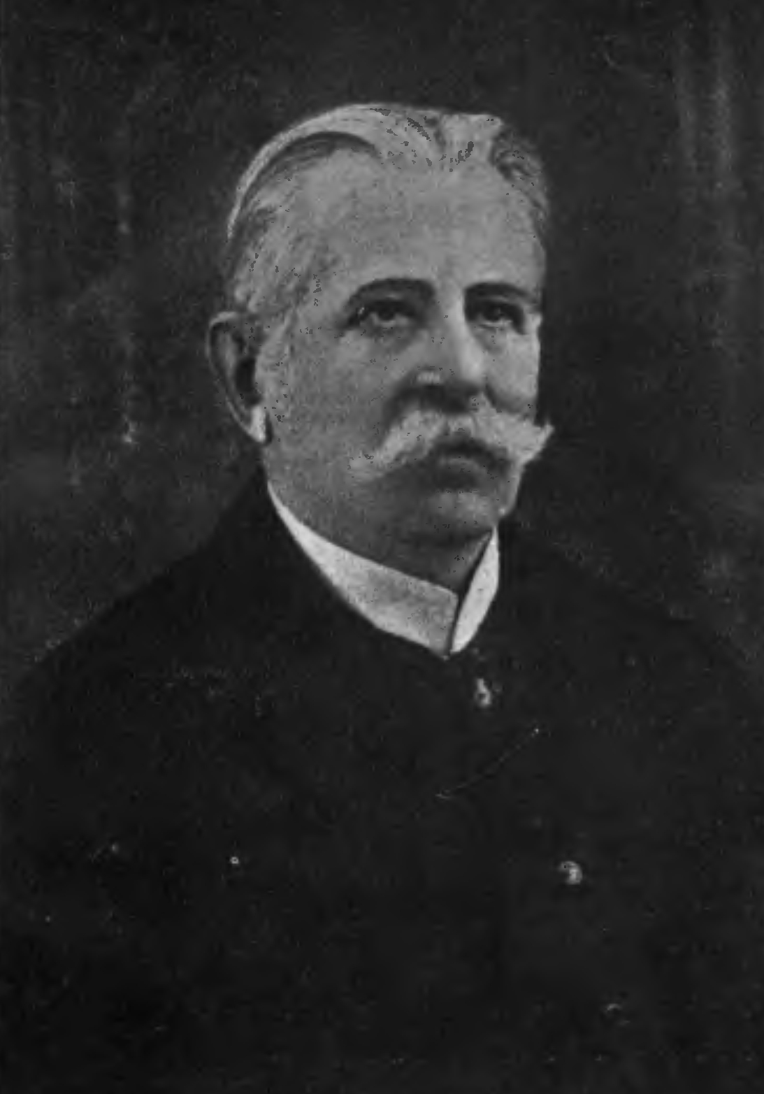 Stanisław Starzyński (1853-1935)